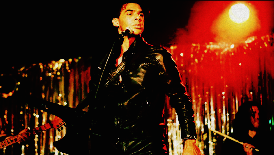 Al Walser Live in Concert